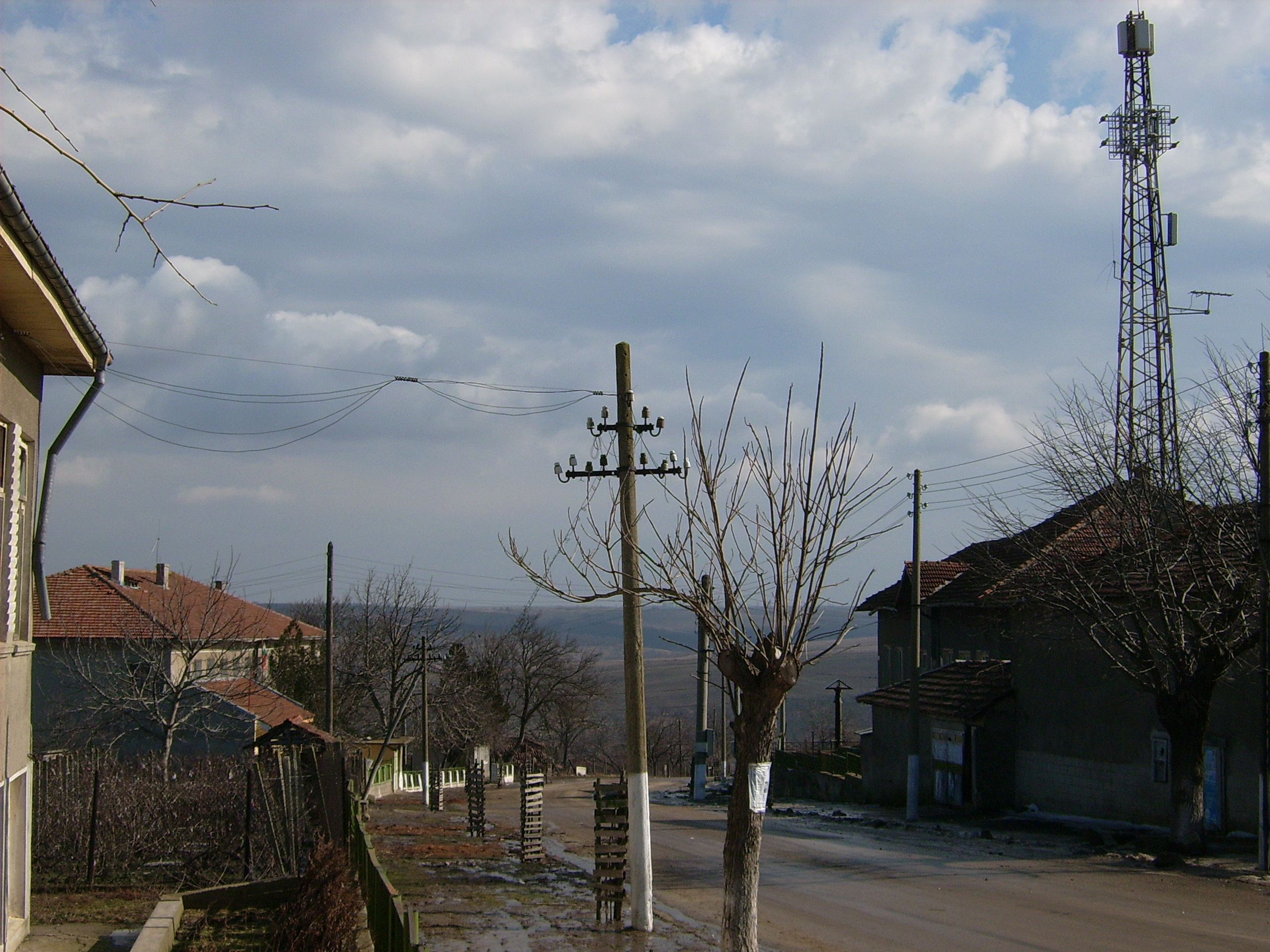 Village Kranovo, Bulgaria